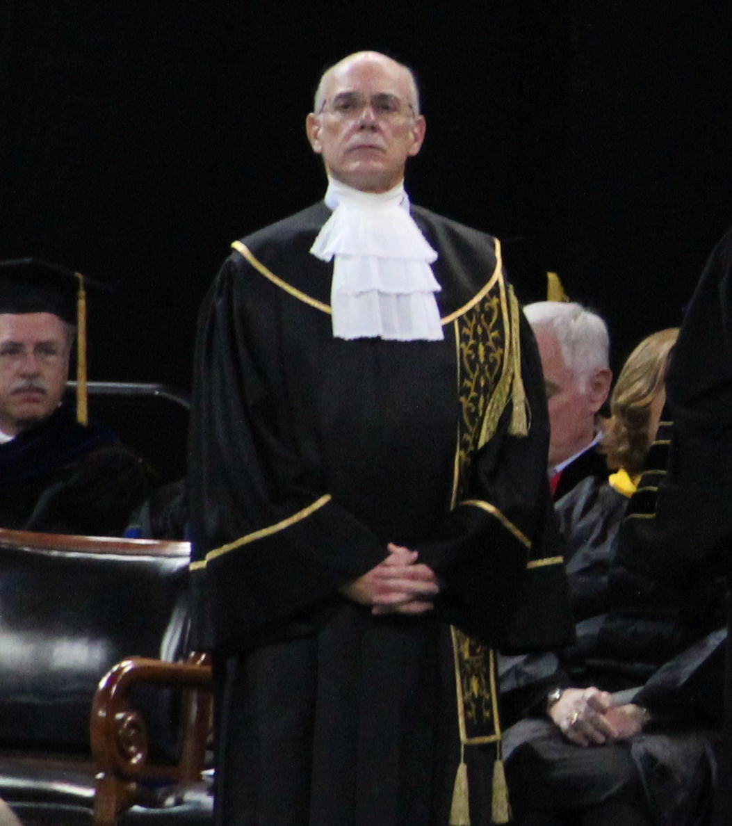 Georgia Tech Provost Rafael L. Bras, December 2016